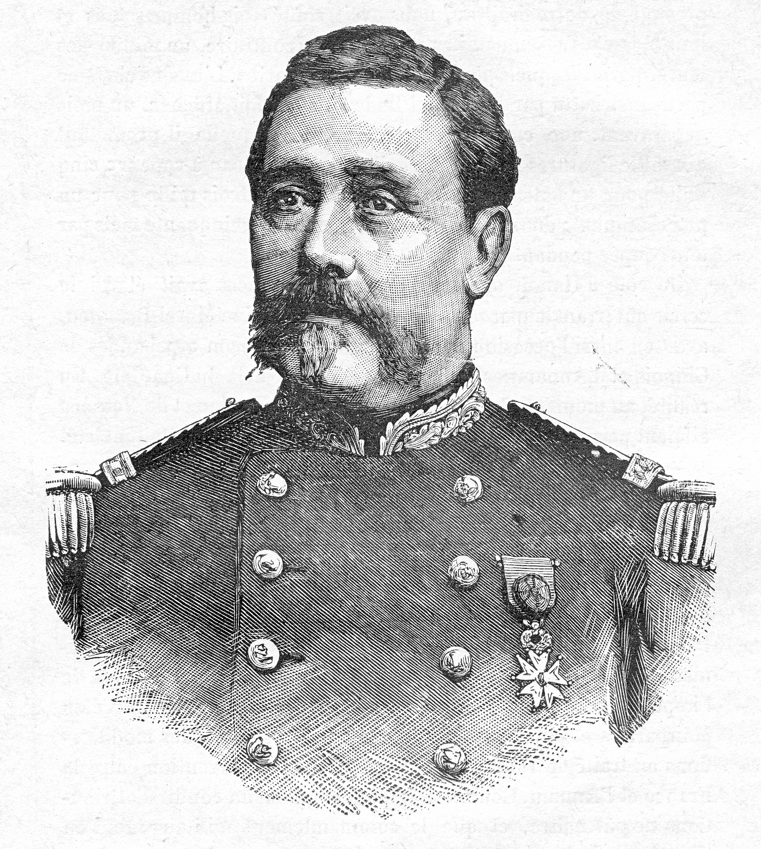 Portrait of General Alexandre-Eugène Bouët (1833–87) on his assumption of command of the Tonkin Expeditionary Corps, June 1883